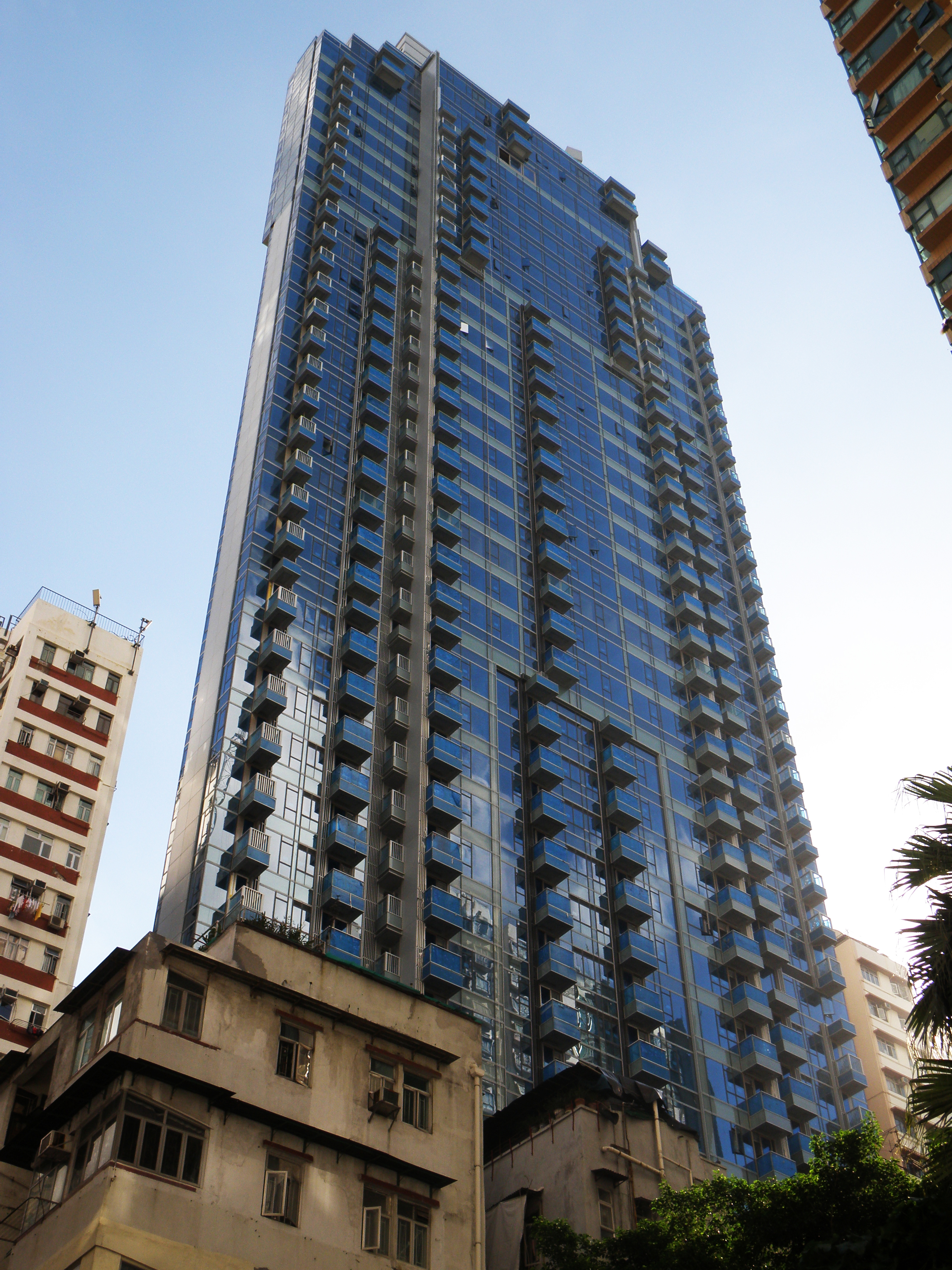 Imperial Kennedy in Kennedy Town, Hong Kong.